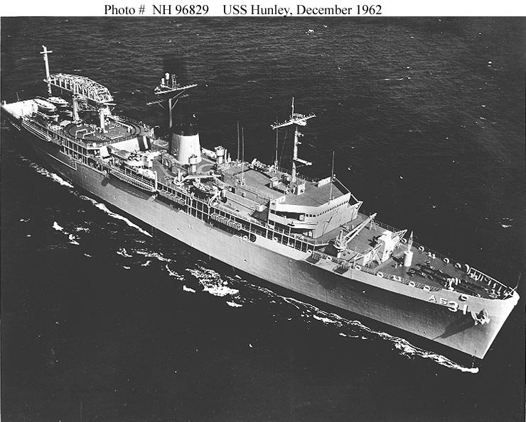 USS Hunley (AS-31)